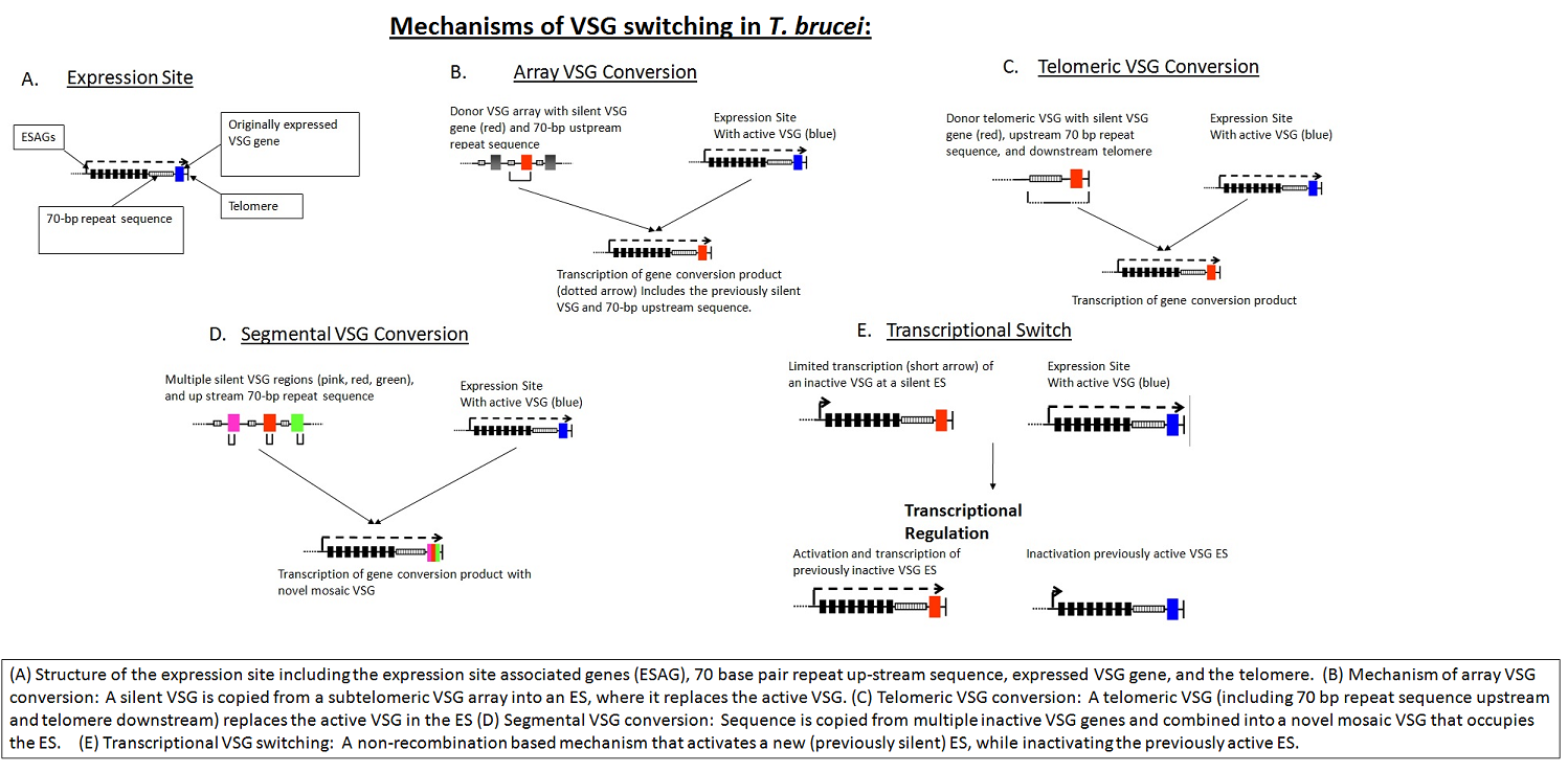 Mechanisms of VSG switching in T. brucei: A. Structure of the expression site including the expression site associated genes (ESAG), 70 base pair repeat up-stream sequence, expressed VSG gene, and the telomere B. Mechanism of array VSG conversion: A silent VSG is copied from a subtelomeric VSG array into an ES, where it replaces the active VSG. C. Telomeric VSG conversion: A telomeric VSG (including 70 bp repeat sequence upstream and telomere downstream) replaces the active VSG in the ES D. Segmental VSG conversion: Sequence is copied from multiple inactive VSG genes and combined into a novel mosaic VSG that occupies the ES E. Transcriptional VSG switching: A non-recombination based mechanism that activates a new (previously silent) ES, while inactivating the previously active ES.